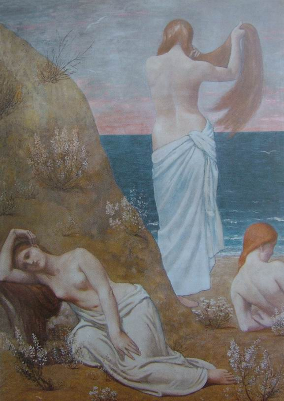 Puvis de Chavannes "Jeunes Filles au bord de la mer" - au Gymnopedies d'Erik Satie